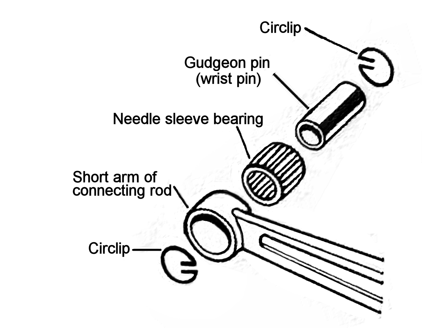 Expanded drawing of a gudgeon pin and connecting rod with needle sleeve bearing and circlips from a moped engine. Labeled and touched up with JASC Paint Shop Pro program from scanned sketch by author. Original pencil sketch by author.